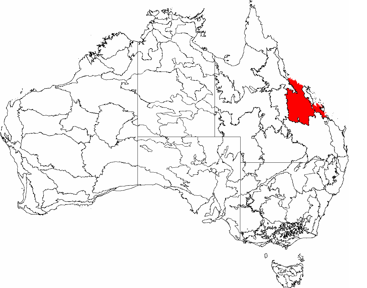 This is a map of the Interim Biogeographic Regionalisation of Australia (IBRA), with state boundaries overlaid. The Brigalow Belt North region is shown in red.